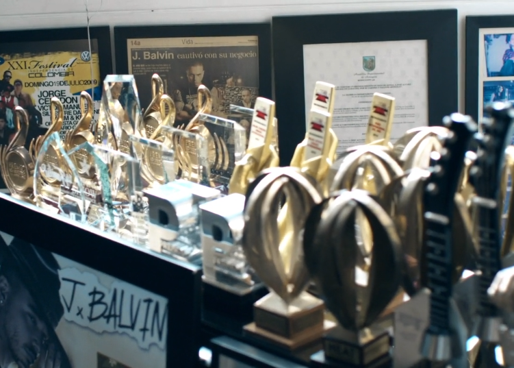 Some trophies won by J Balvin